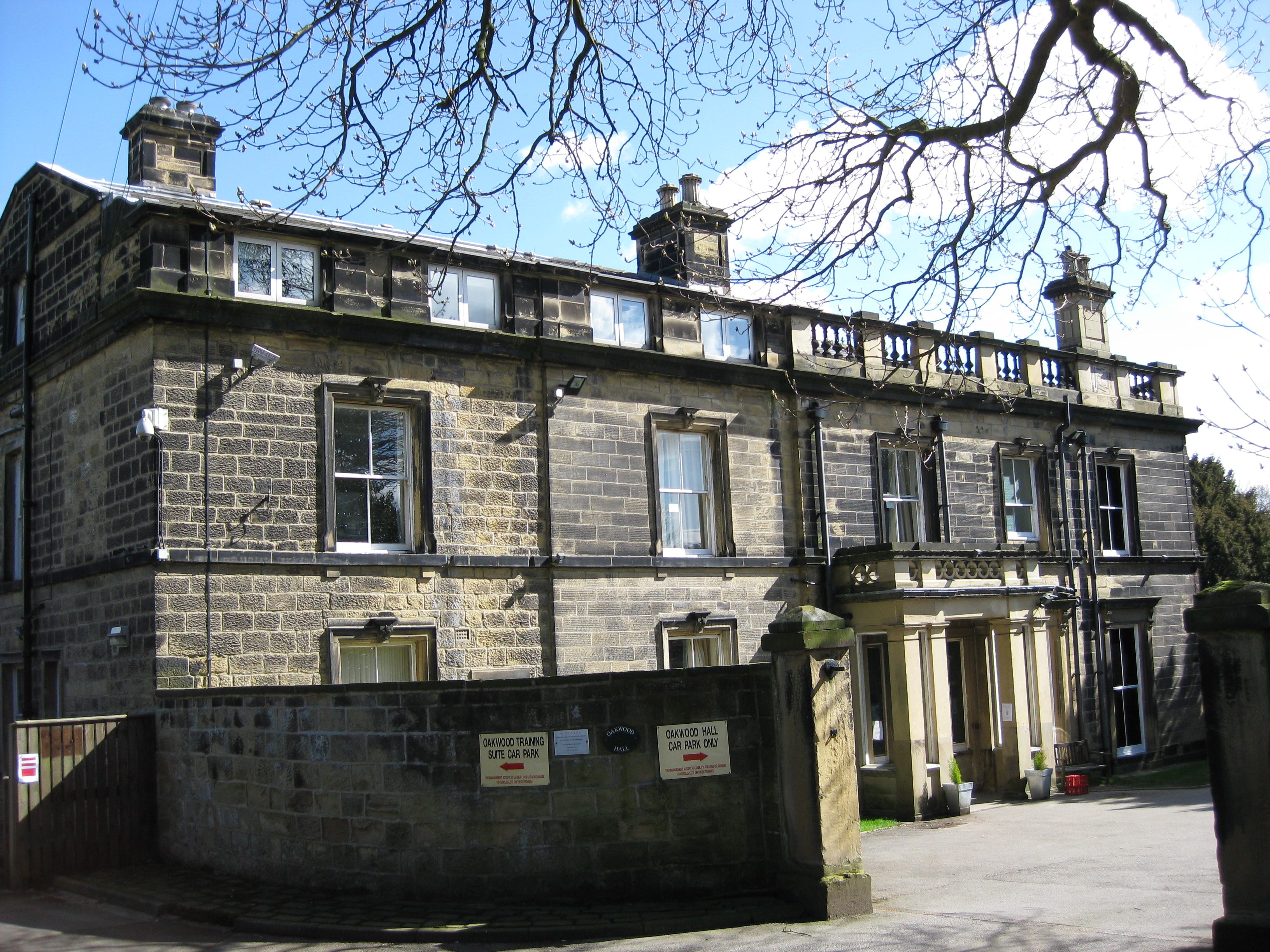 Oakwood Hall, Oakwood Grange Lane, Leeds LS8 2PF. Site of the Roundhay Garden Scene